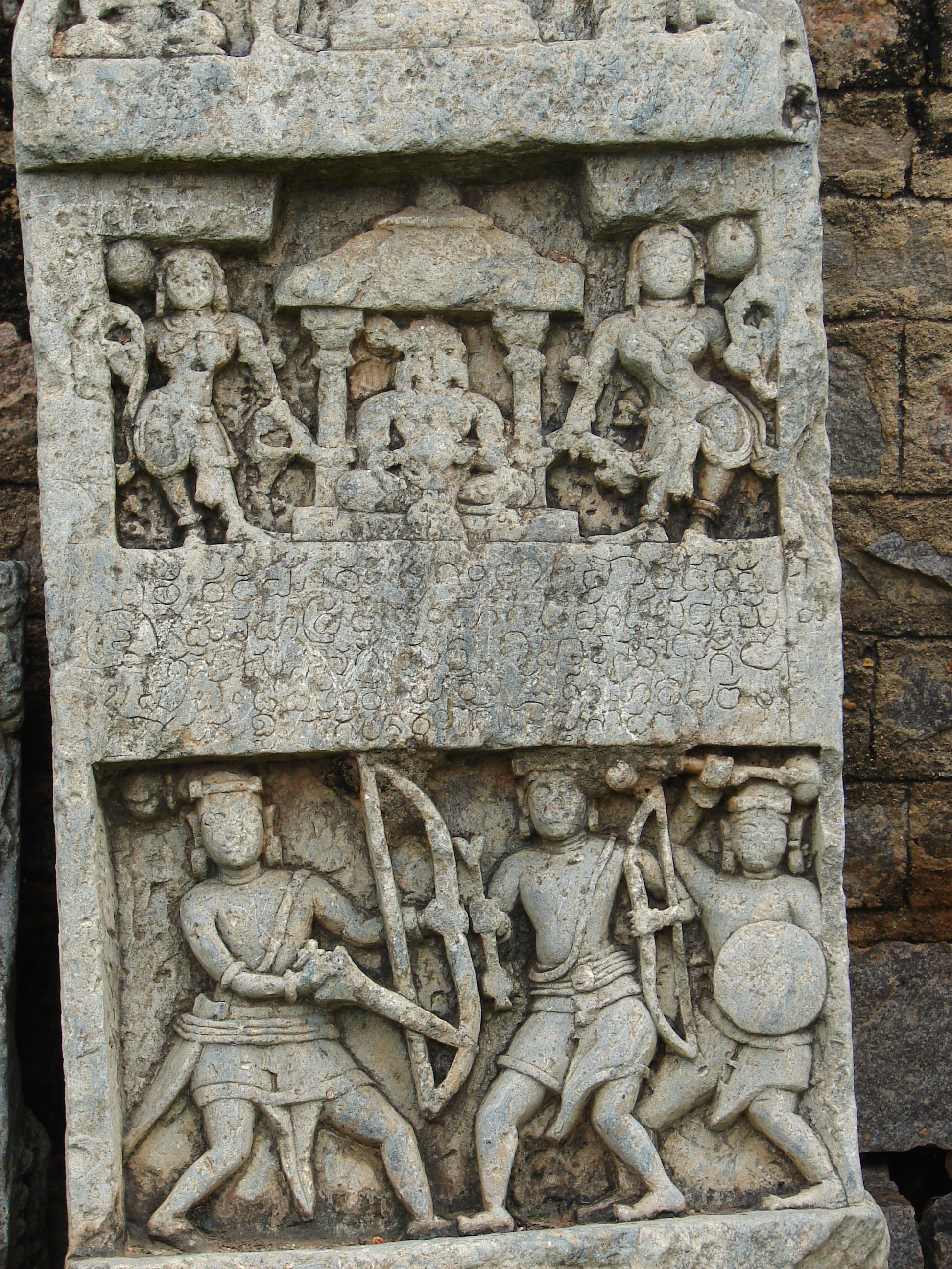 This Photograph of a hero stone (Virgal) from the 13th century Hoysala period was taken by self (Dinesh Kannambadi) at the Ishwara temple in Arasikere, Hassan district, Karnataka state, India in August 2007. The Hero stone also contains old Kannada inscription from that period.